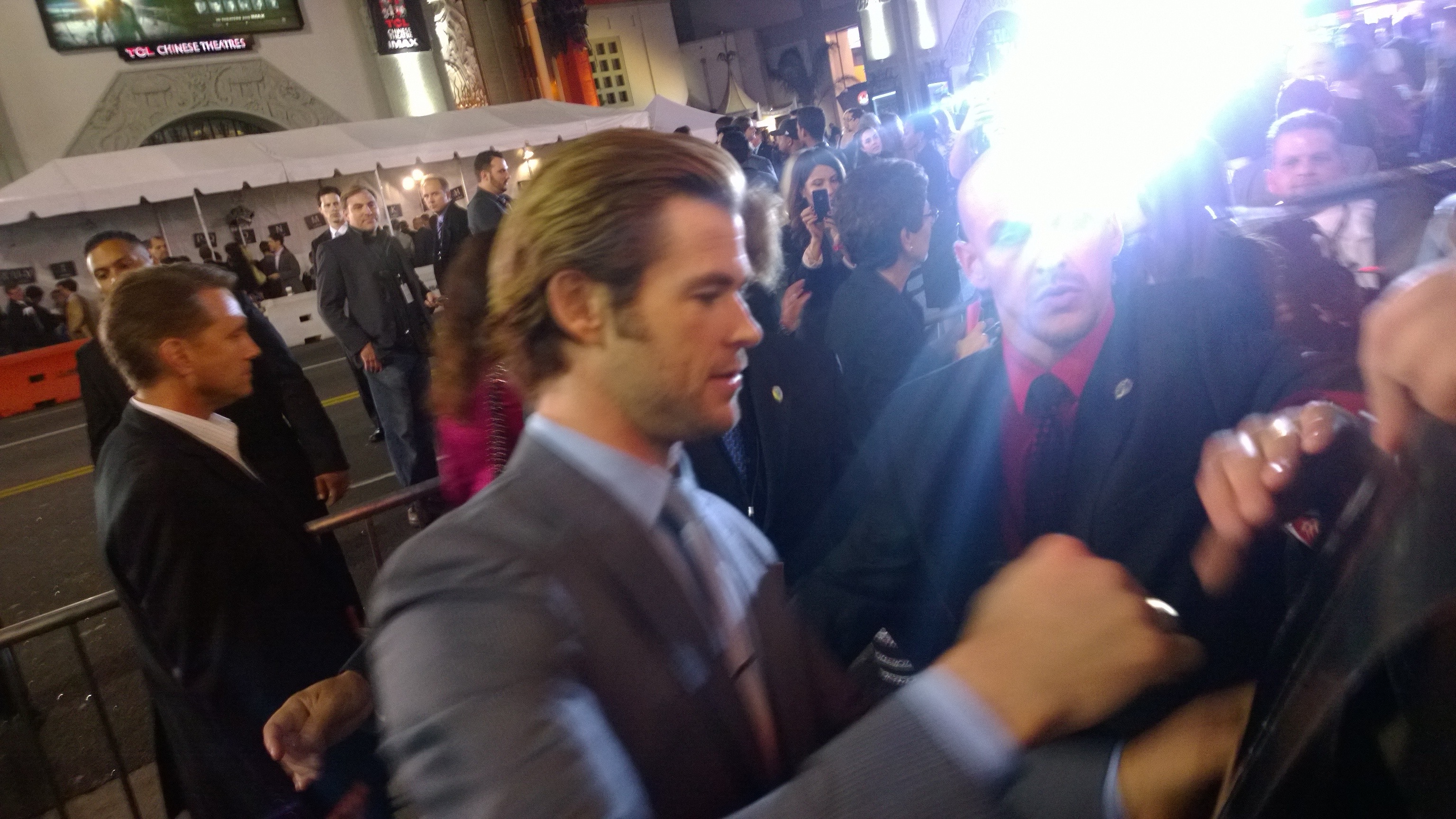 Chris Hemsworth Signing at Thor Dark World Premiere